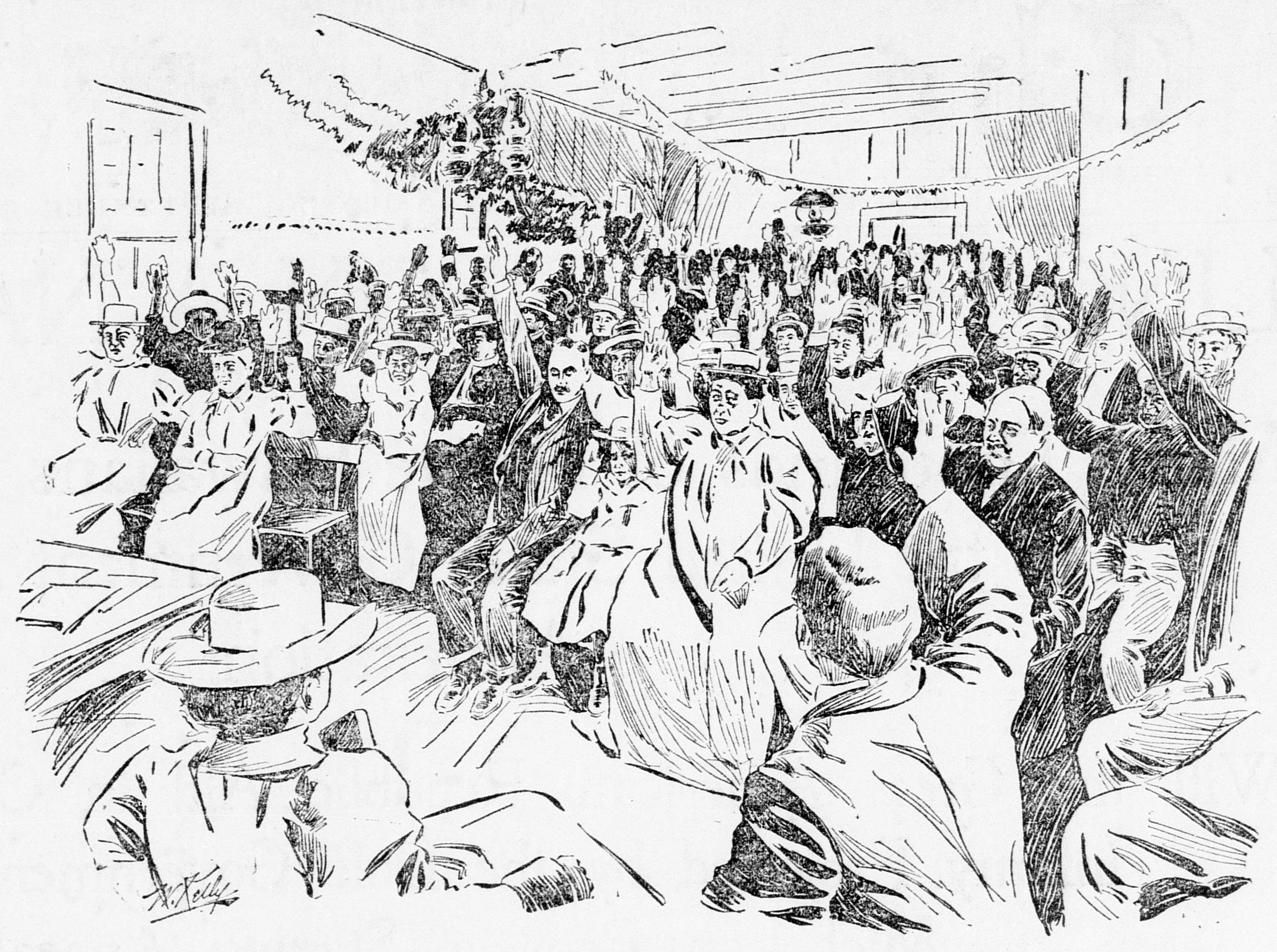 Meeting of Natives at Hilo, Island of Hawaii, Thursday, September 16, 1897, to Protest Against Annexation.